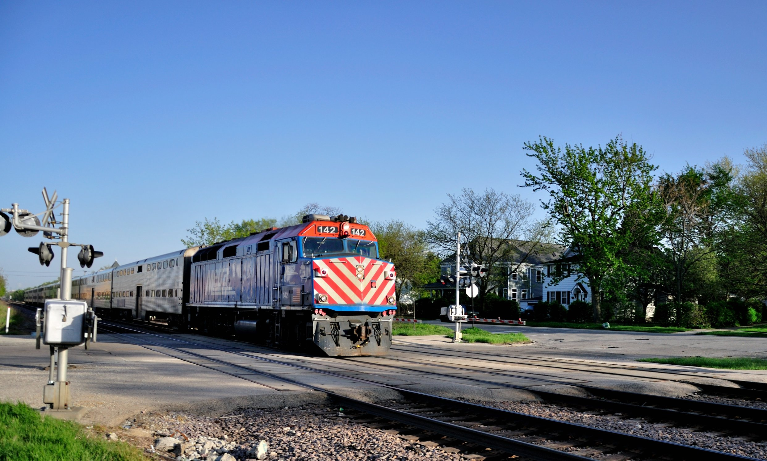 METX 142 pulls a rush hour consist of bi-levels on the Union Pacific Northwest Line on the express track across Sayre Avenue crossing.